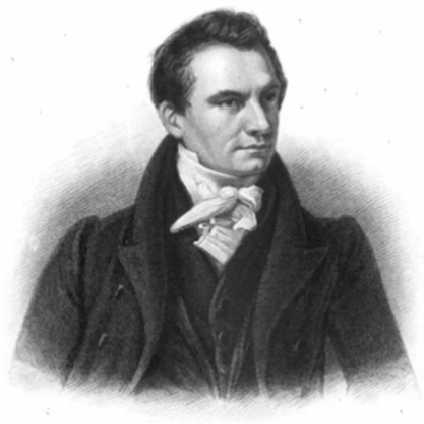 Charles Babbage at approximately 40 years of age